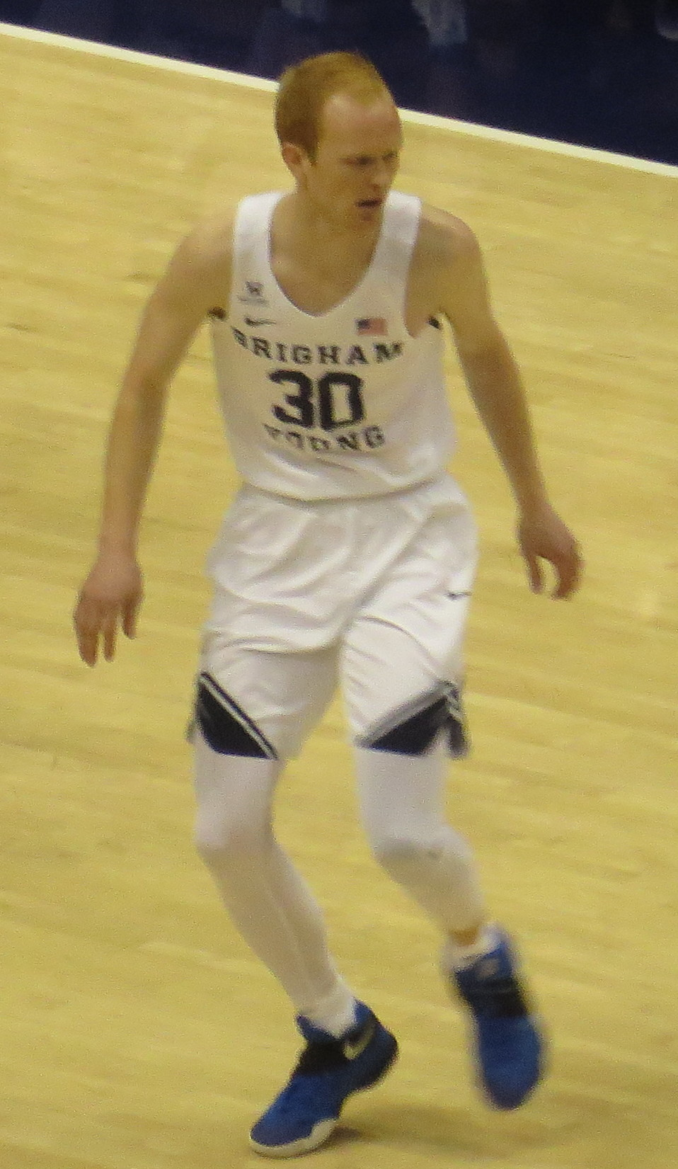 BYU vs Pepperdine basketball 2017